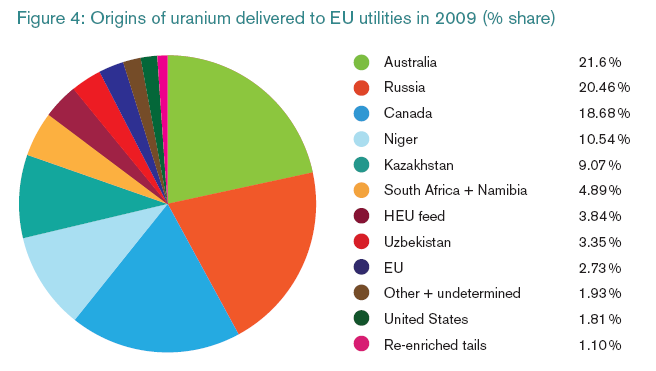 EURATOM Supply Agency Annual Report 2009: Origins of uranium delivered to EU utilities in 2009